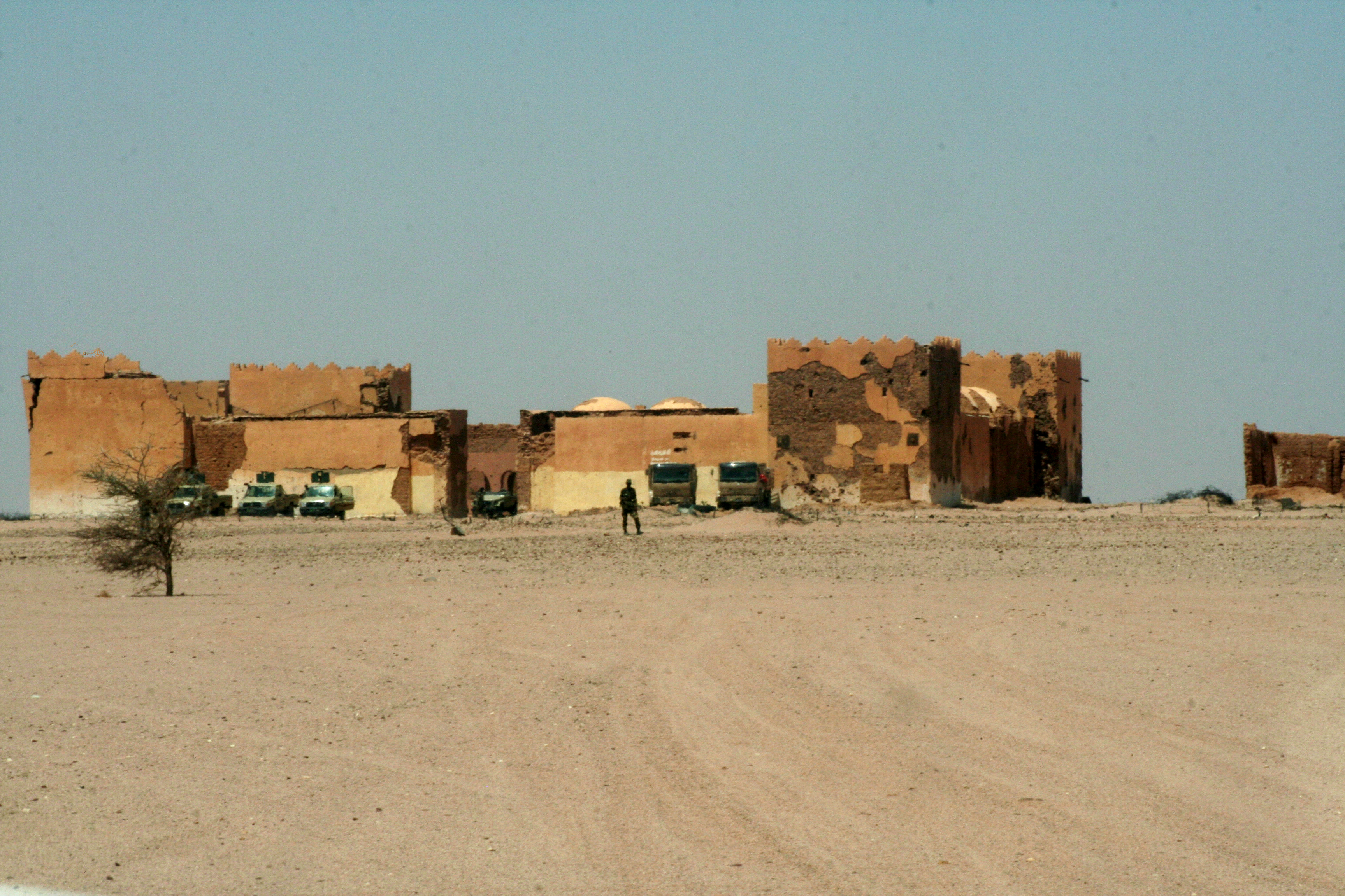 The fort at Ain bin Tilli.